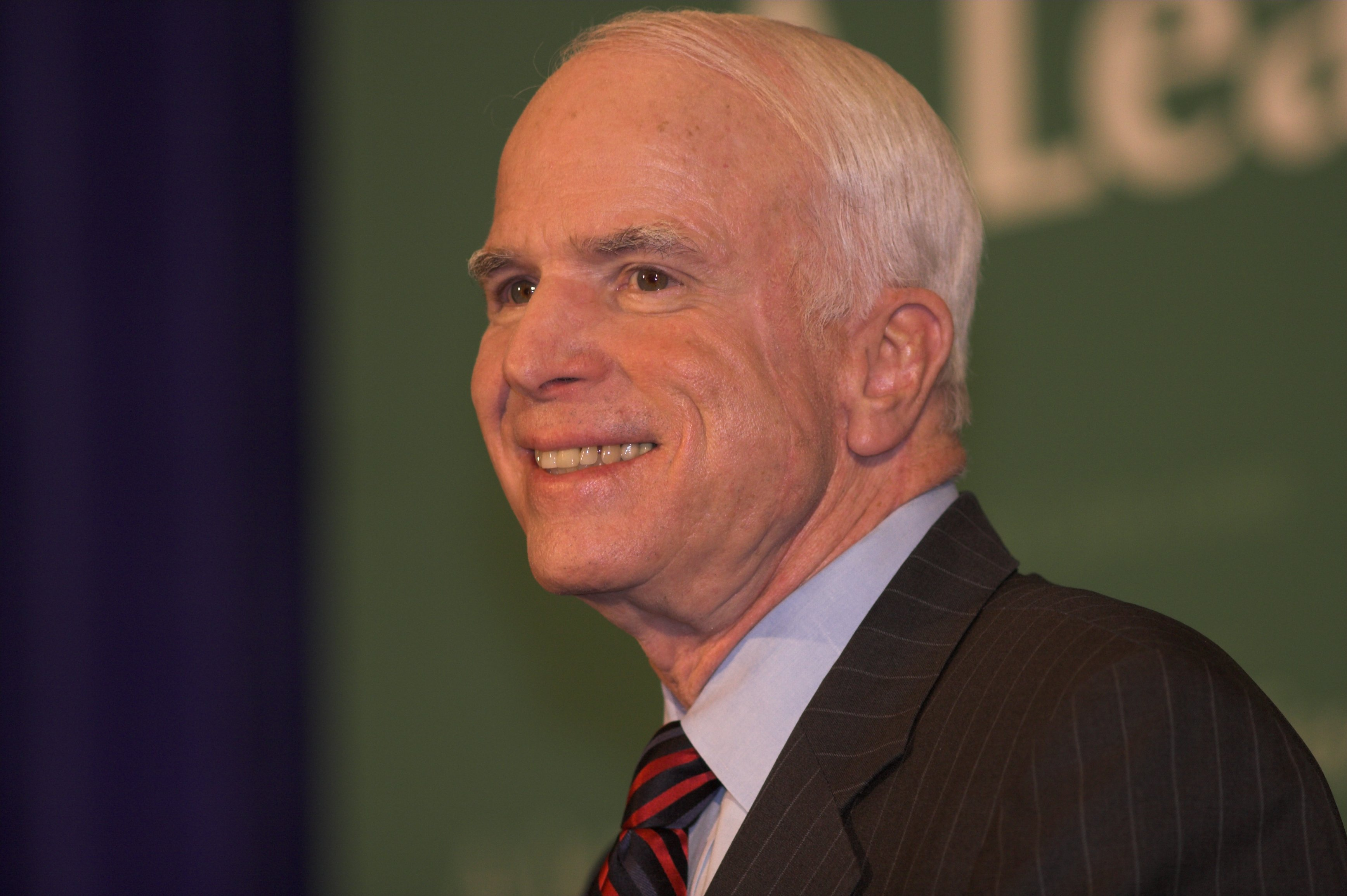 Republican presidential candidate John McCain at campaign appearance in Kenner, Louisiana.